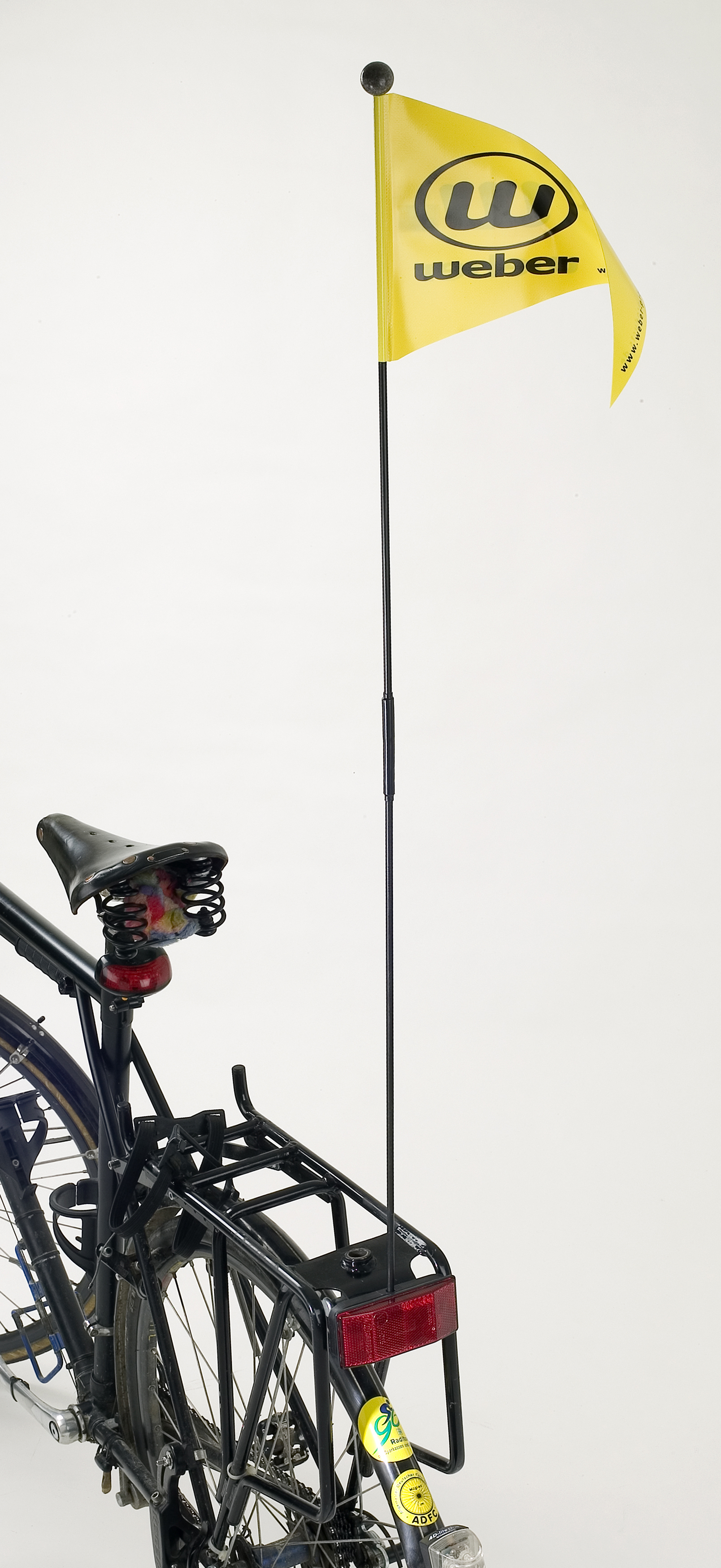 bike safety banner